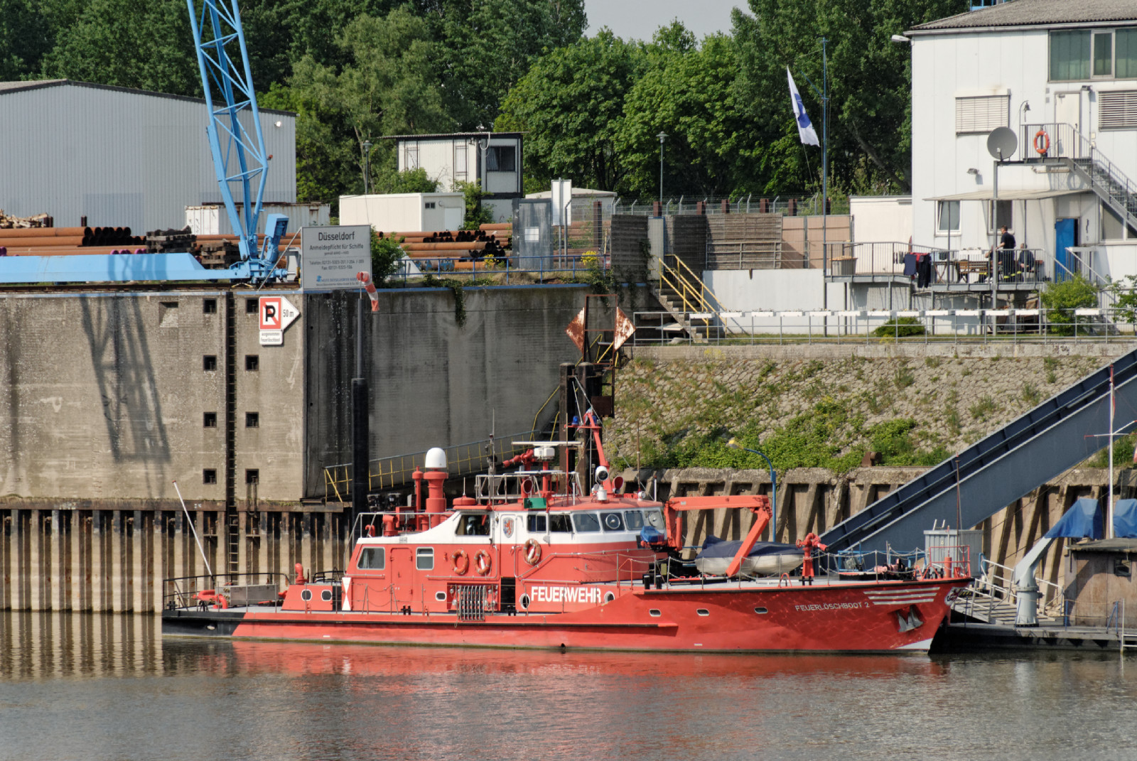 Fireboat in Düsseldorf-Hafen, Germany